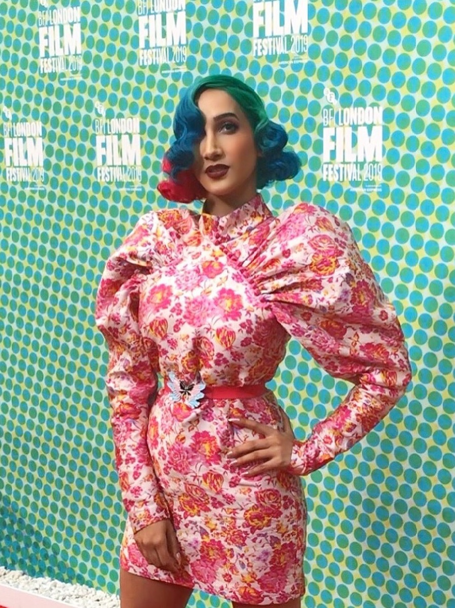 Sukki Singapora, Netflix Singapore Social star on red carpet